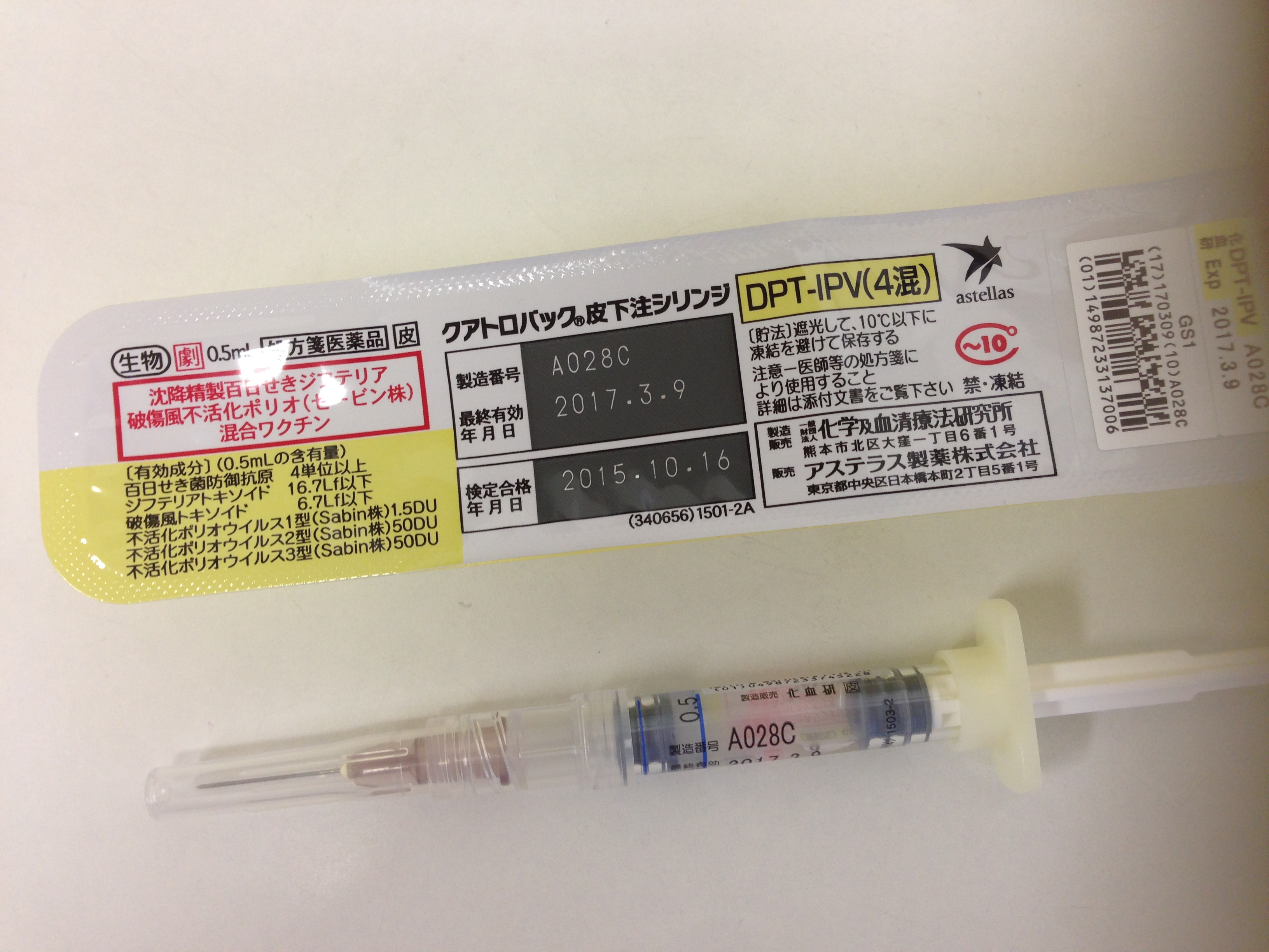 Quattro back